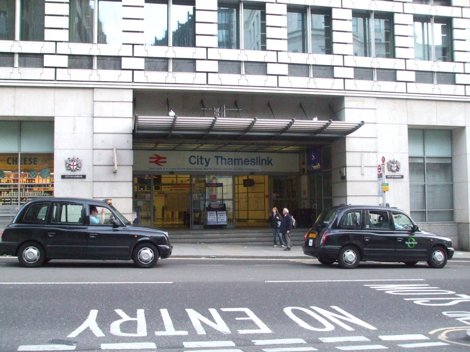 The southern entrance to City Thameslink railway station on Ludgate Hill